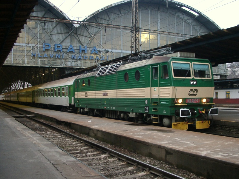 CD EL 162 at Praha HN Sta., Czech Republic.